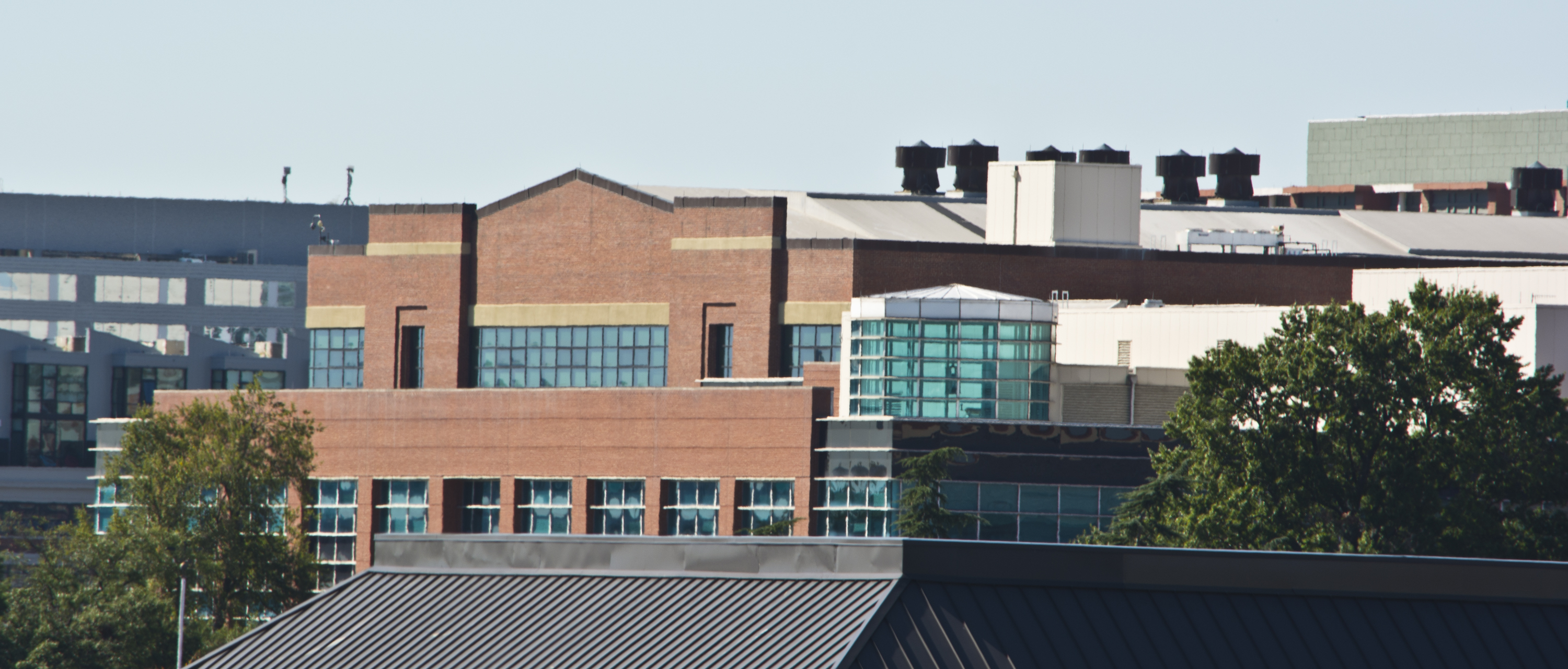 Looking northwest at the Naval Sea Systems Command Building at the Washington Navy Yard -- the day after the Washington Navy Yard shootings on September 16, 2013, in Washington, D.C., in the United States. Constructed during 1939-1940, Building 197 was originally called the "Gun Assembly Shop" and was used for ordnance assembly during World War II. It is a striking examples of industrial architecture constructed for use during the war effort, and is part of the Washington Navy Yard National Historic Landmark. It was renovated in 2001 as part of a $200 million construction project involving several buildings at the Washington Navy Yard. The Naval Sea Systems Command relocated here in 1995 from Crystal City, Virginia, as part of the Base Realignment and Closure process. The command subsequently built three massive new office buildings in the area (most of them outside the Washington Navy Yard), revitalizing the area. The Naval Sea Systems Command employs about 6,000 people at the Washington Navy Yard and its environs.